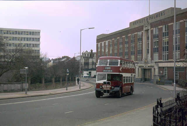 1979 in Kings Road in Reading, England. The large office block on the right was part of the Huntley & Palmers biscuit factory, which by 1979 was nearing closure. The site is now occupied by the Prudential building at 121 Kings Road.